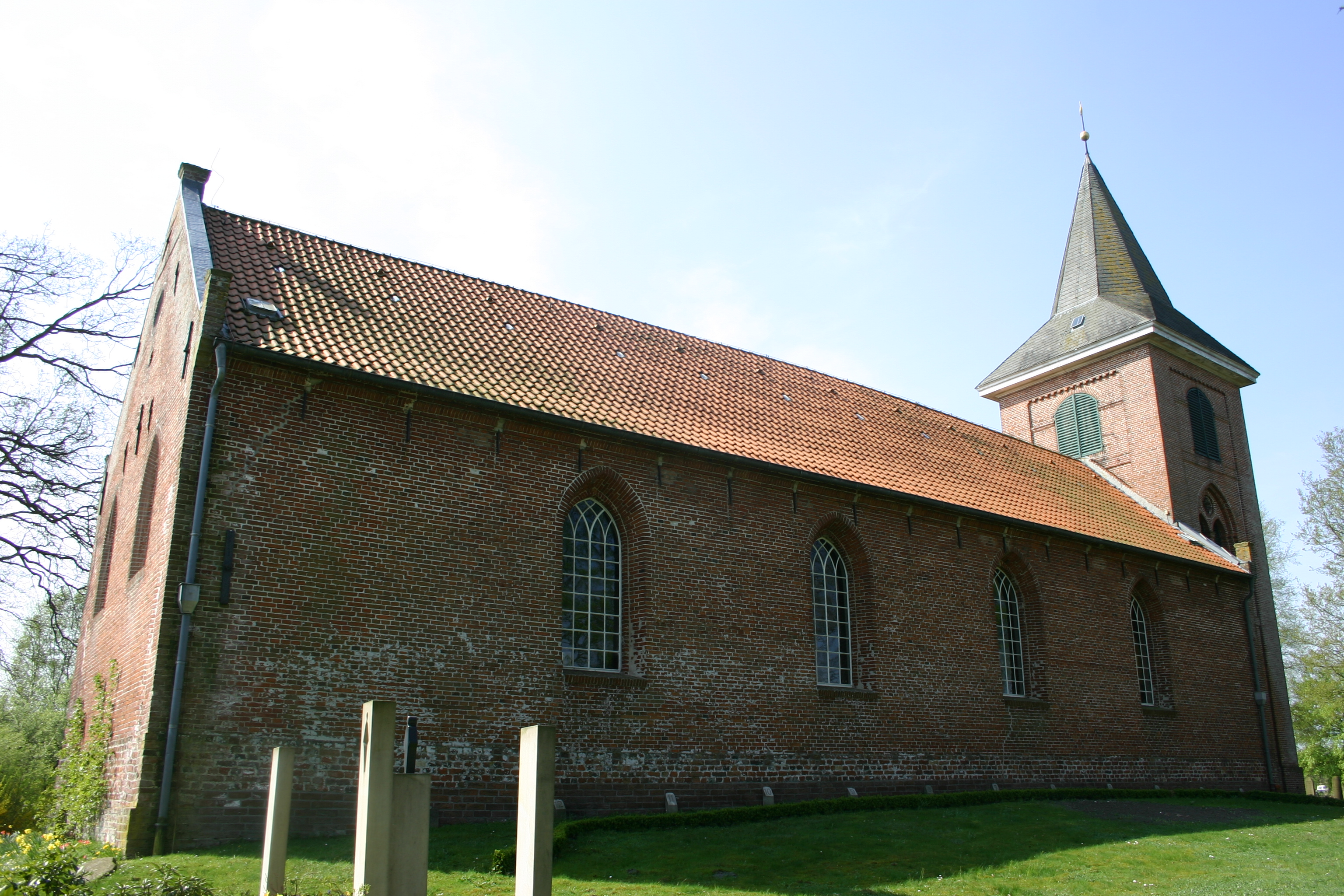 Historic Peter-Paul Church in Timmel, district of Aurich, East Frisia, Germany